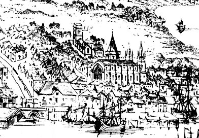 The Abbey of St. Mary de Graces (Eastminster) taken from A View of London, Westminster and Southwark 1543